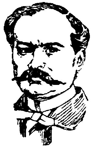 Theodore Barrière, French dramatist